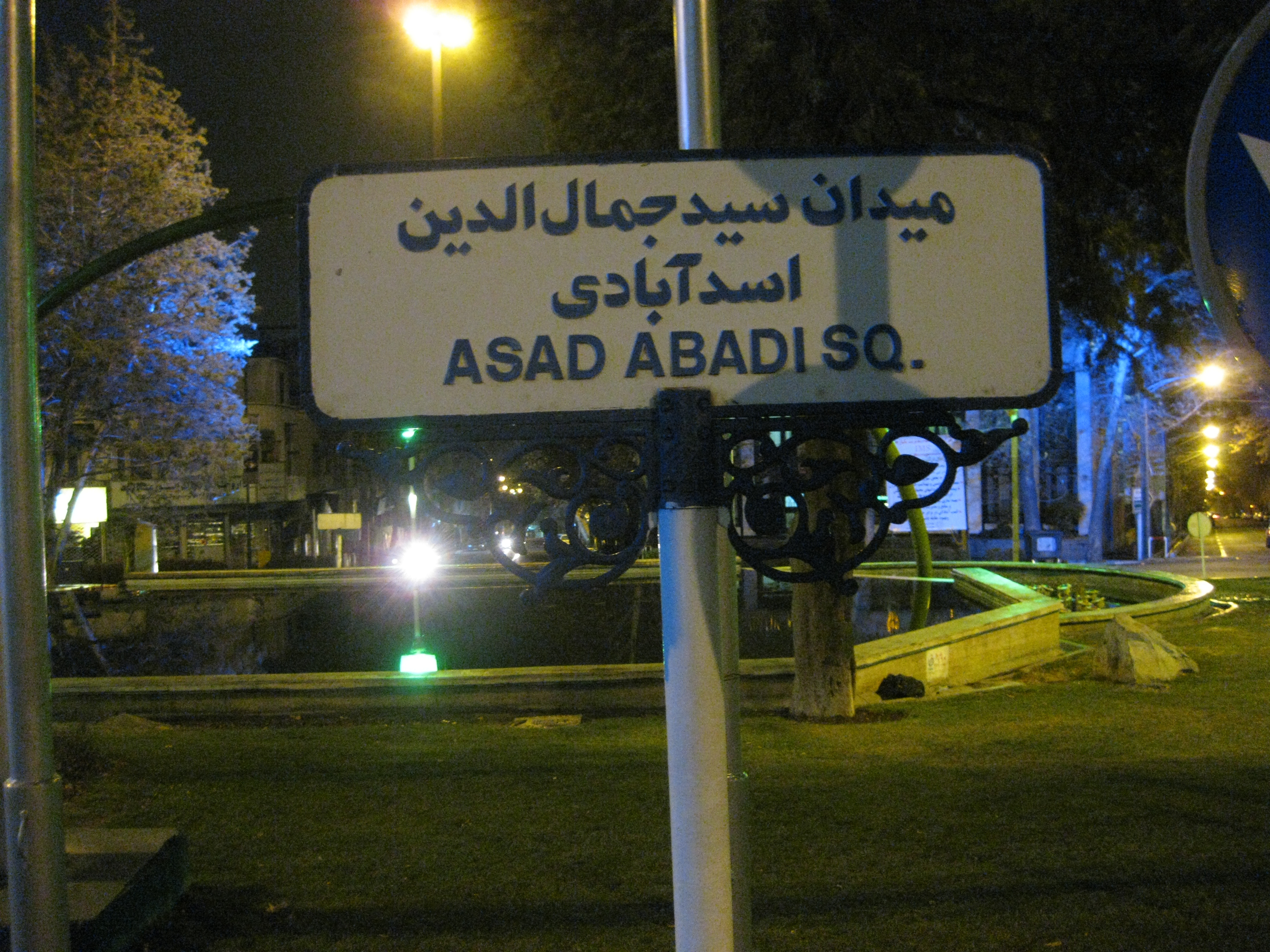 Asadabadi square, Tehran, Iran.